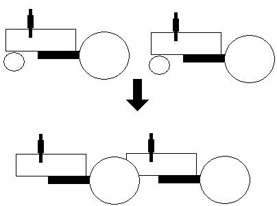 Tandem tractor